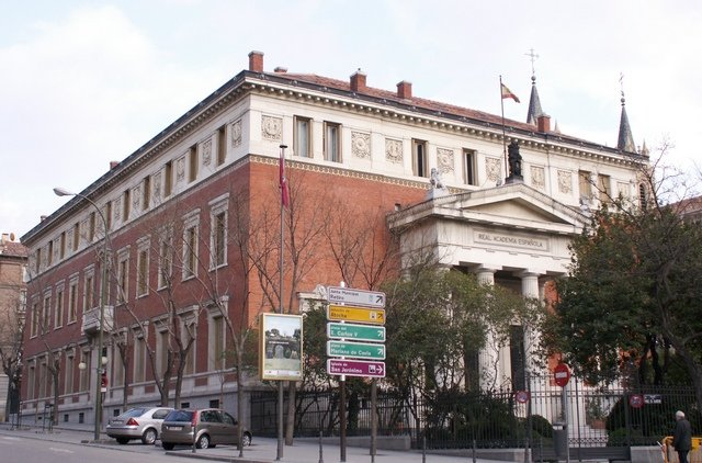 Real Academia Española's headquarters, in Retiro district in Madrid (Spain).